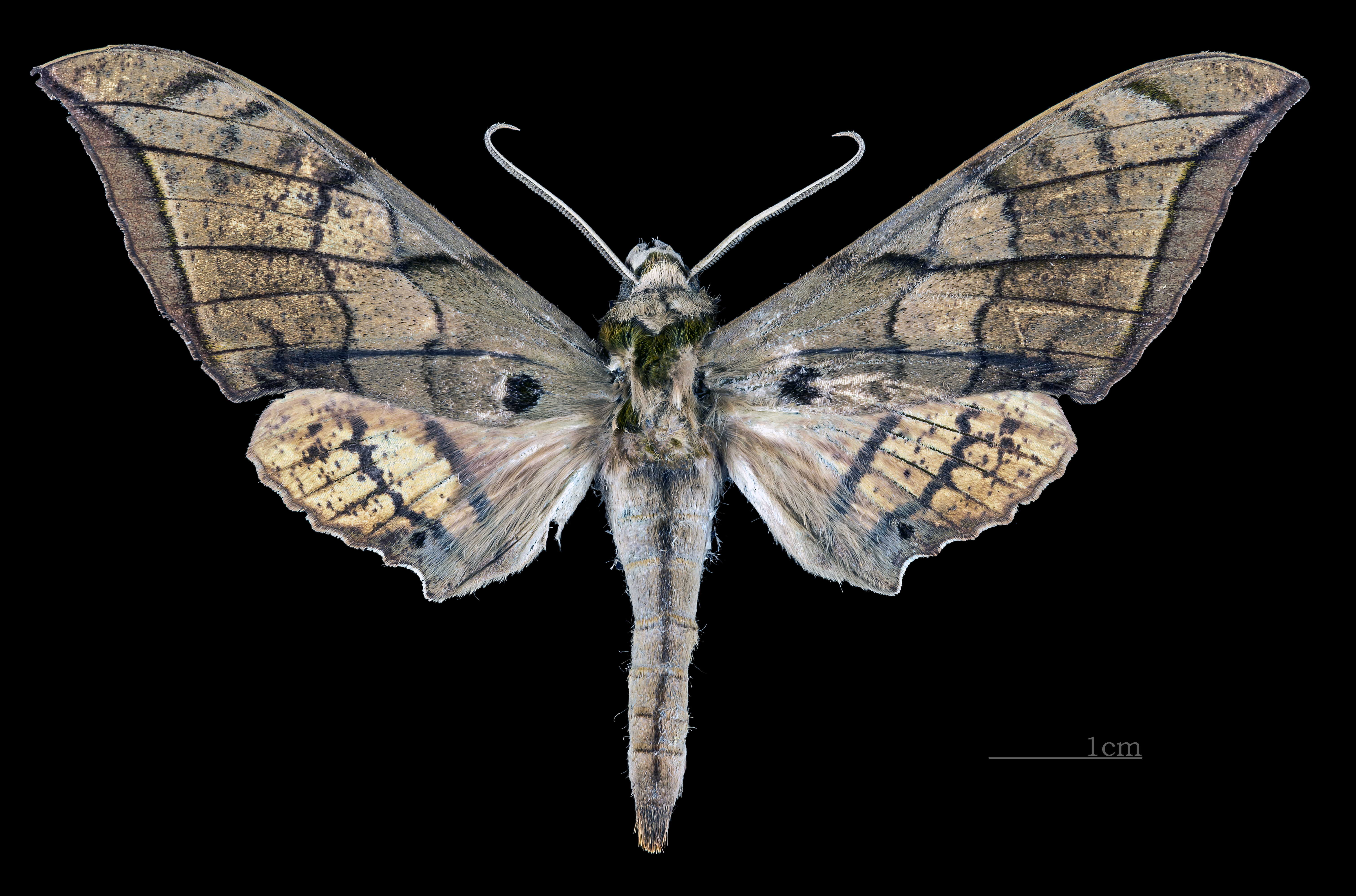 Ambulyx johnsoni - Dorsal side Collection of the Mathematician Laurent Schwartz